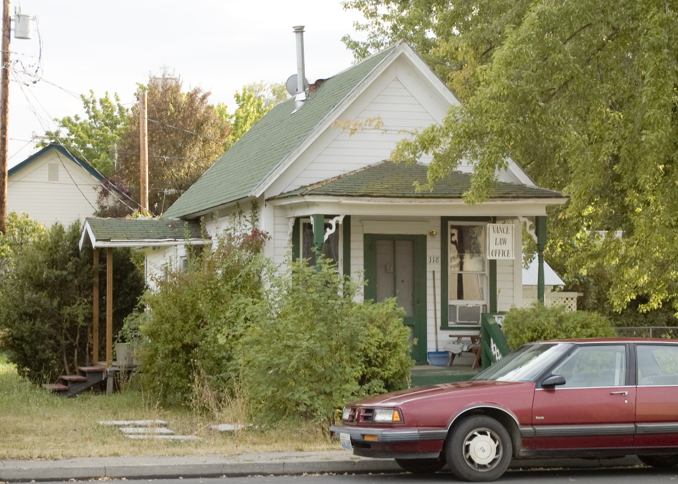 A Lawyer’s Office in Goldendale, WA.